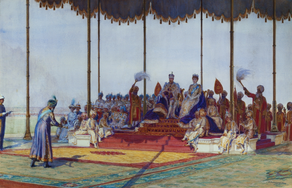 King George V and Queen Mary in regalia seated on thrones under large canopy; figure left presenting sword